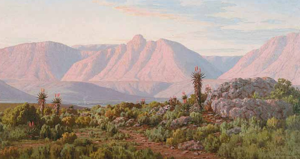 Evening Glow: The Langebergen at Riversdale (Mozambiquerskop), 36,5 x 67cm